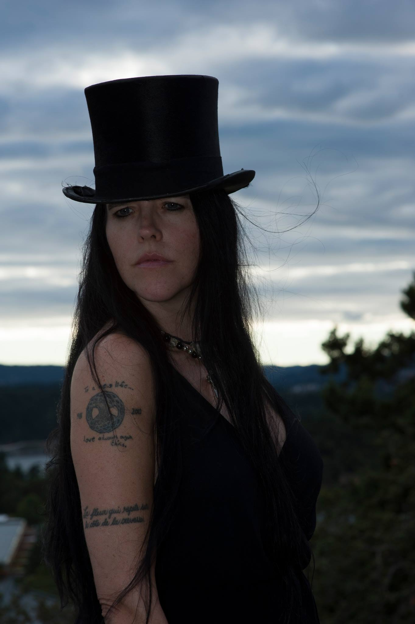 Catherine Owen — Canadian Author.